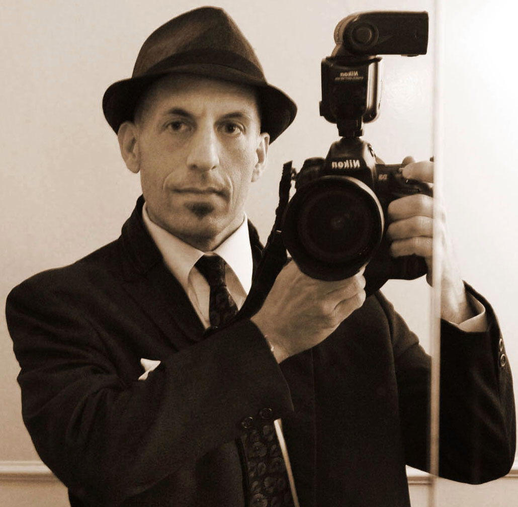 Self portrait of photographer, Robert Yager.